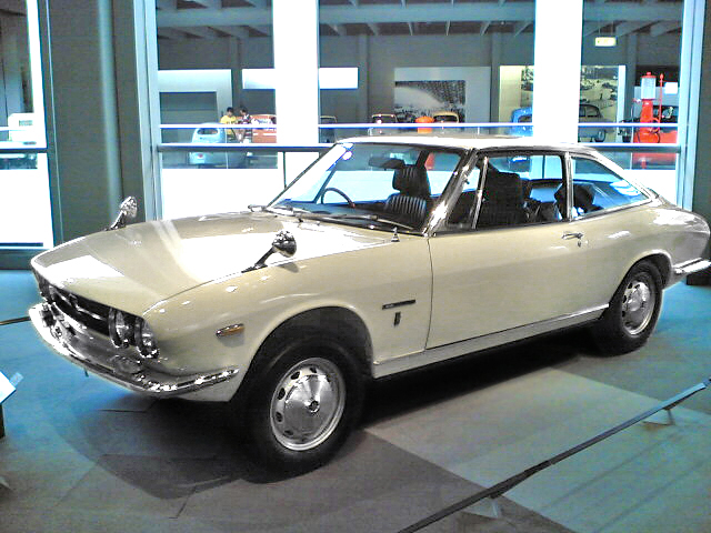 Isuzu 117coupe in The Toyota automobile museum [1] ( トヨタ博物館 )